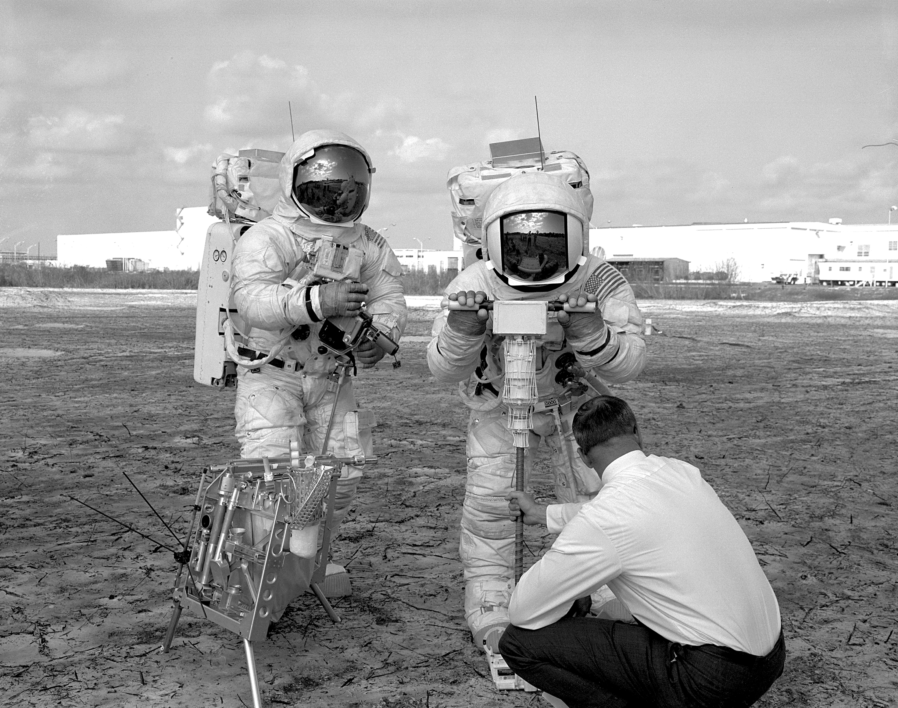 The two members of the Apollo 13 crew who will land on the Moon's Fra Mauro region in the lunar module this spring underwent a walk-through of the extravehicular activity timeline here today. Fred W. Haise, Jr., Lunar Module Pilot, tries out a motorized core sampler, right, while James A. Lovell, Jr., the Apollo 13 Commander, looks on at left. Image # : 70P-0046